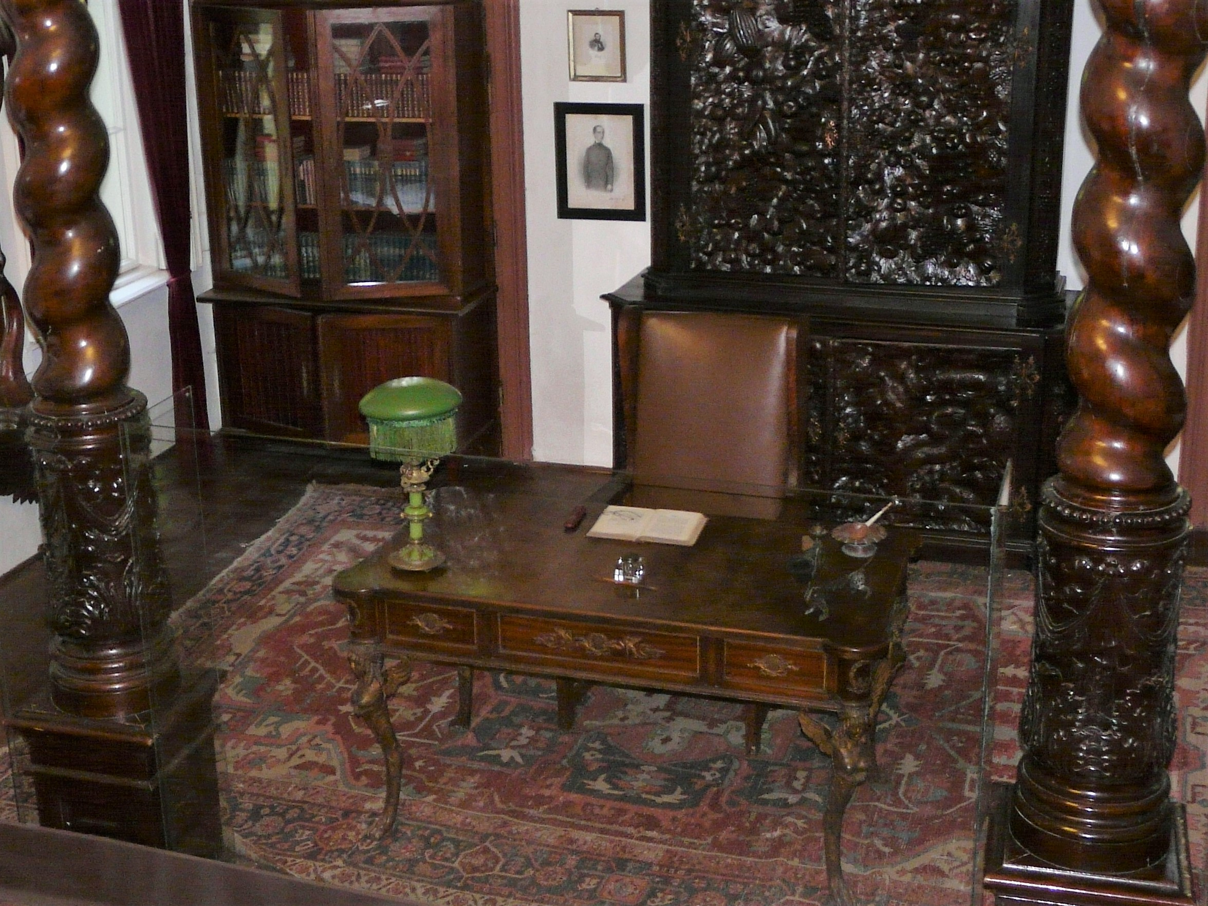 Room interior in Kálmán Mikszáth Memorial House, Horpács